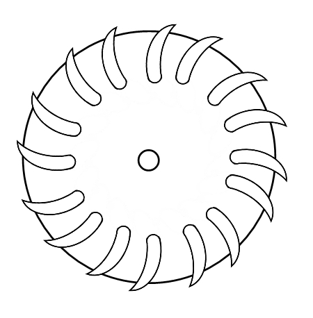 Illustration of a wind driven turbine (impeller) for the M734 Fuze alternator